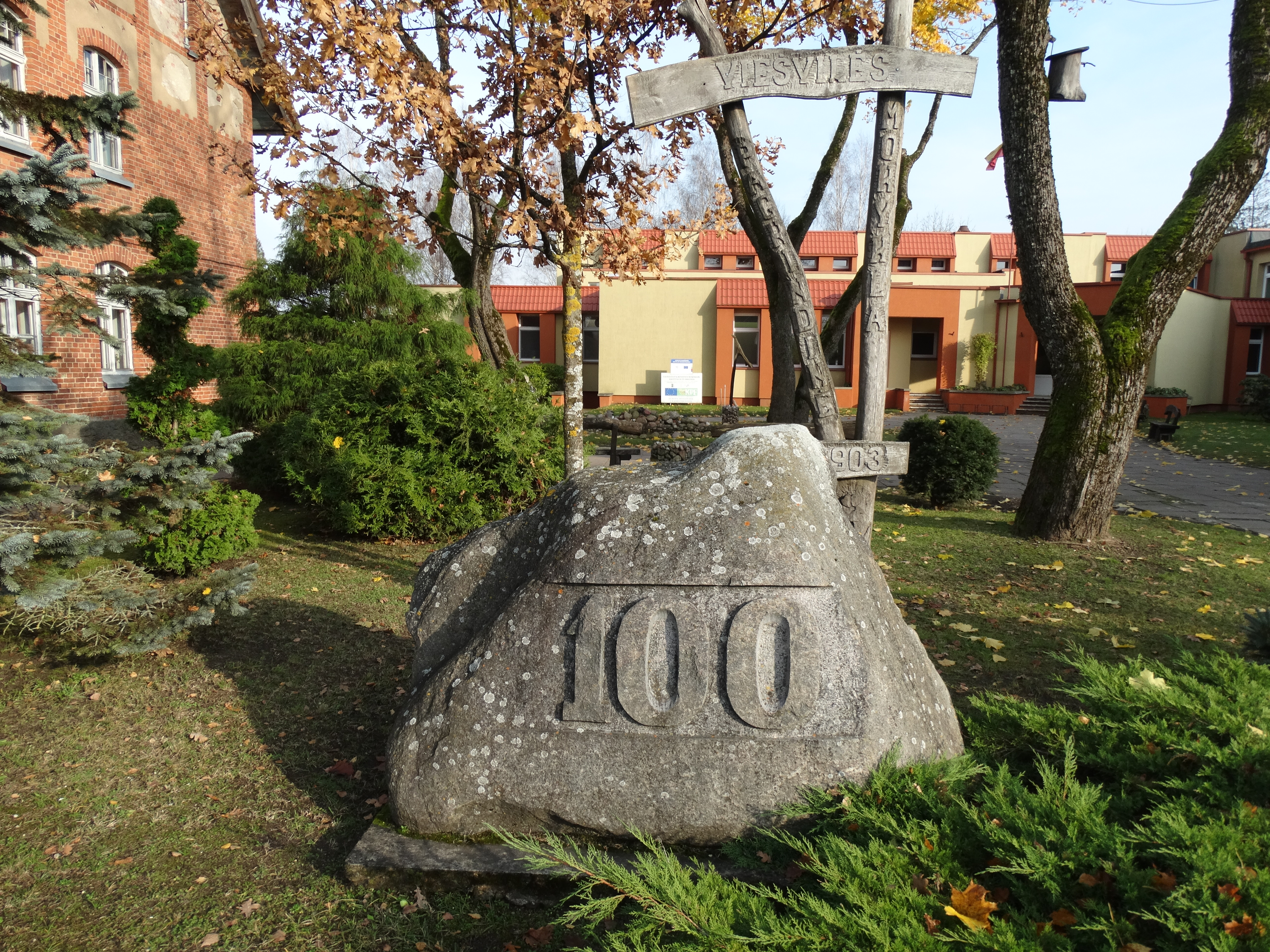 Memorial stone by school, Viešvilė, Jurbarkas District, Lithuania